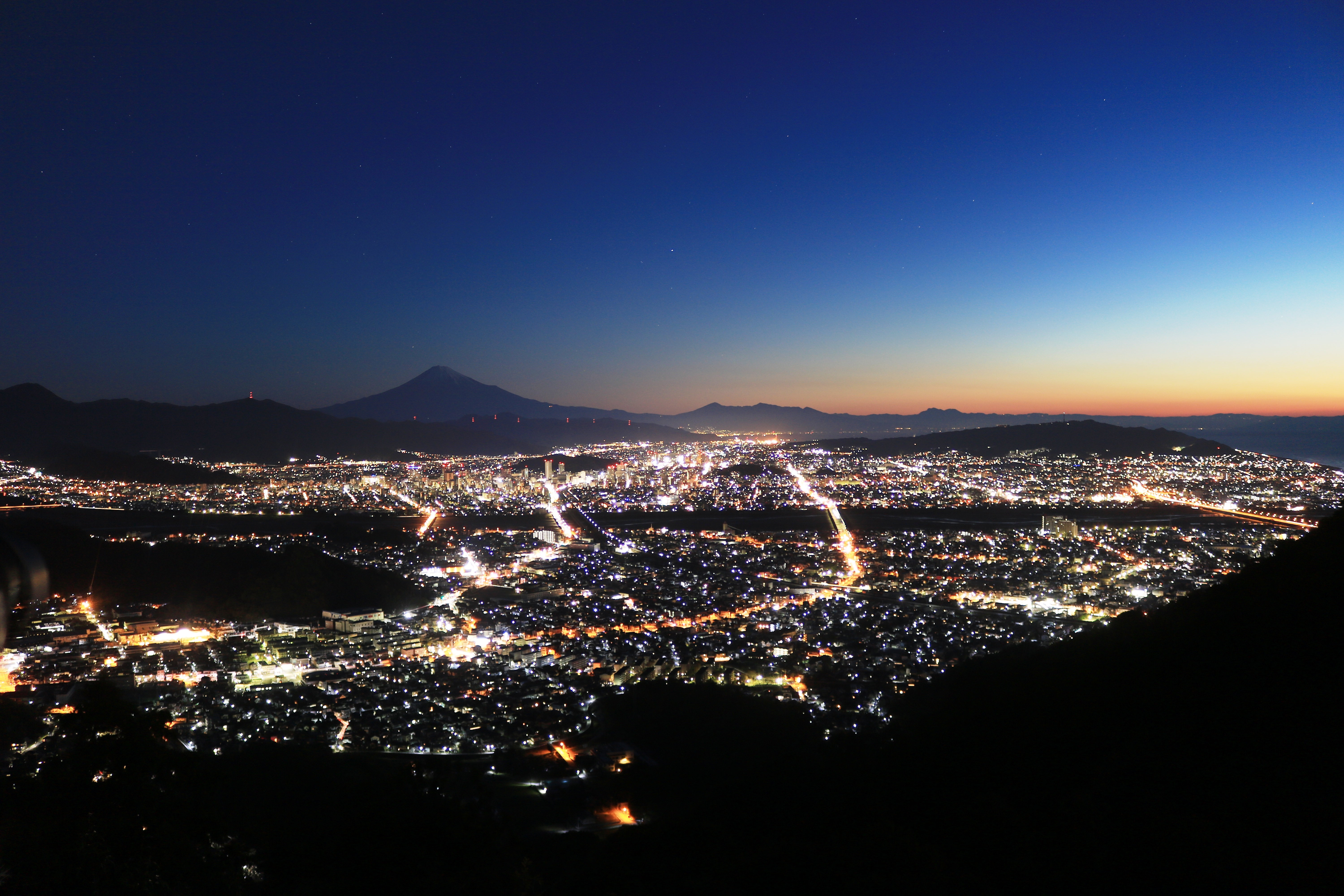 Shizuoka city at night, Mount Fuji, Ashitaka Mountains and Hakone Mountains seen from Choseniwa in Shizoka prefecture, Japan.